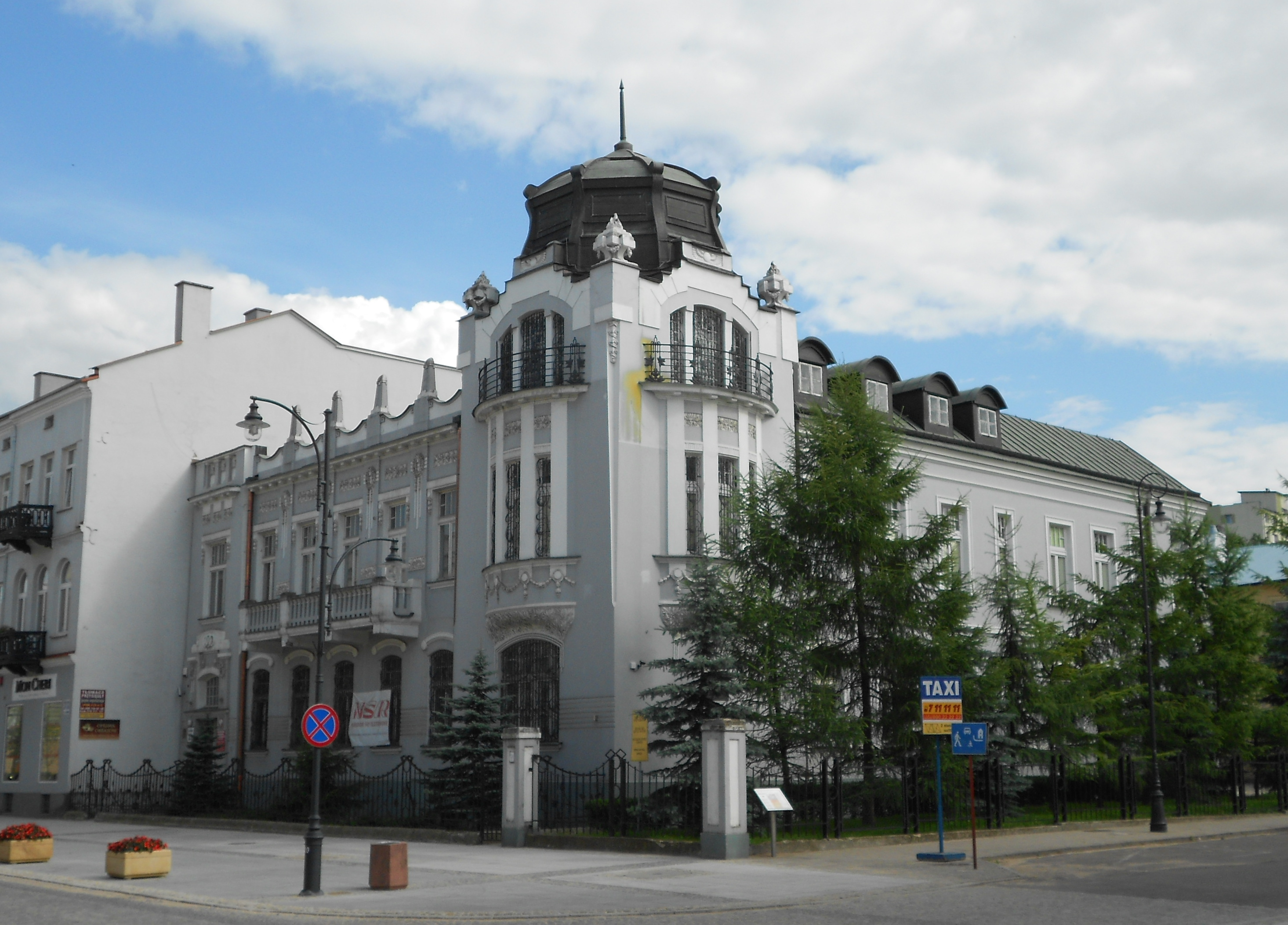 Nowik's Palace in Białystok at Lipowa 35 street, currently building of Military Draft Office